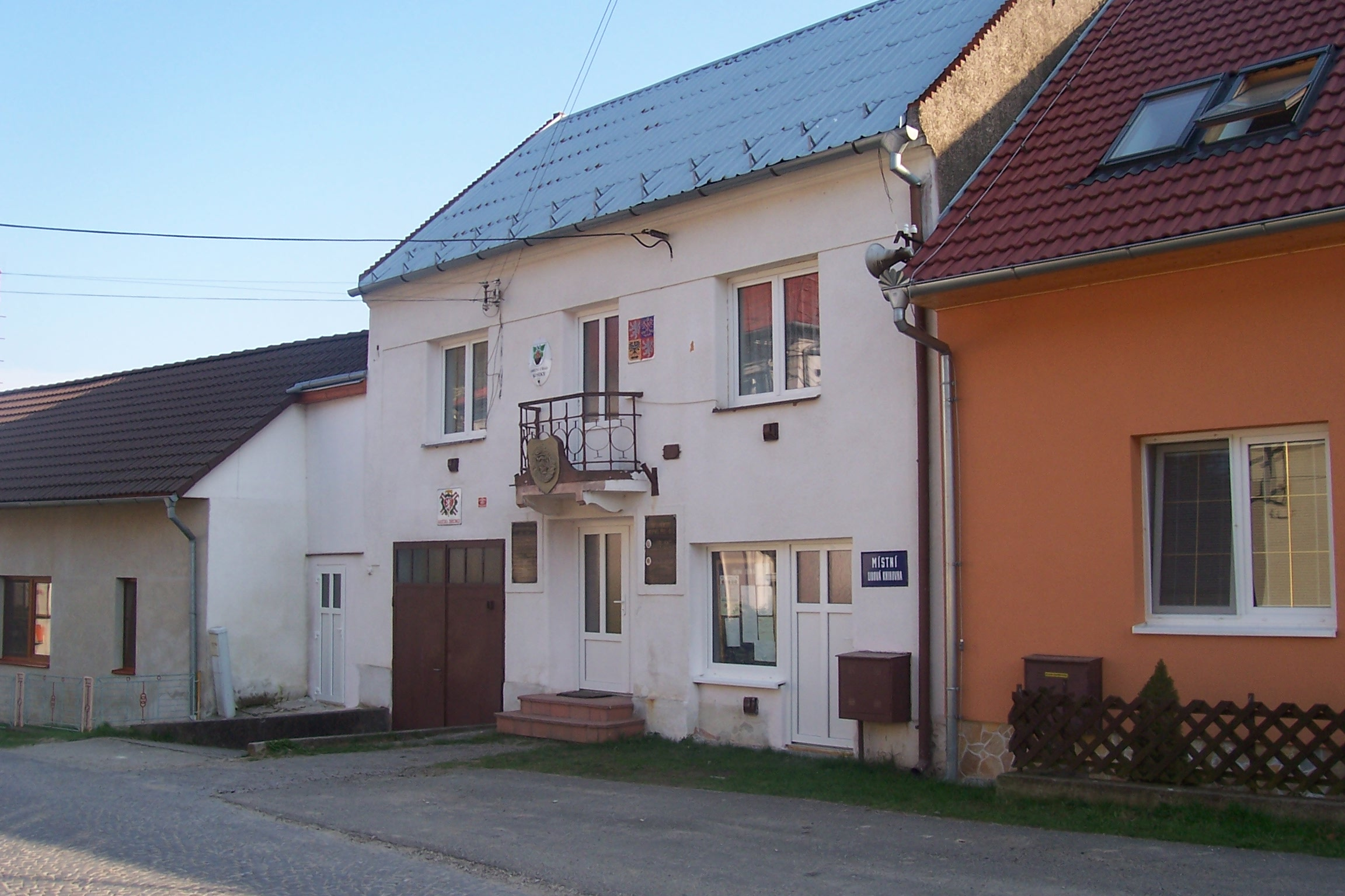 Košíky in Uherské Hradiště District, Czech Republic. Municipal office.